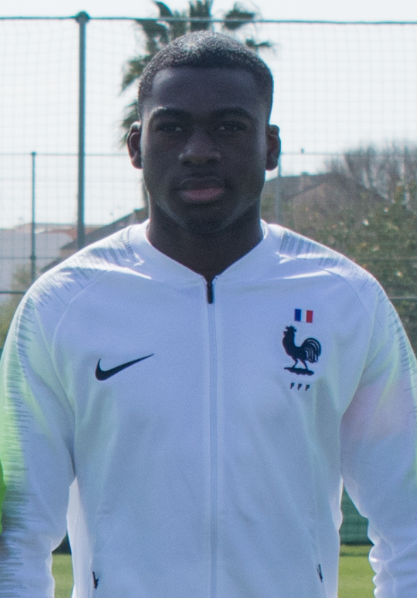 USA U20 v France U20, 22 March 2019